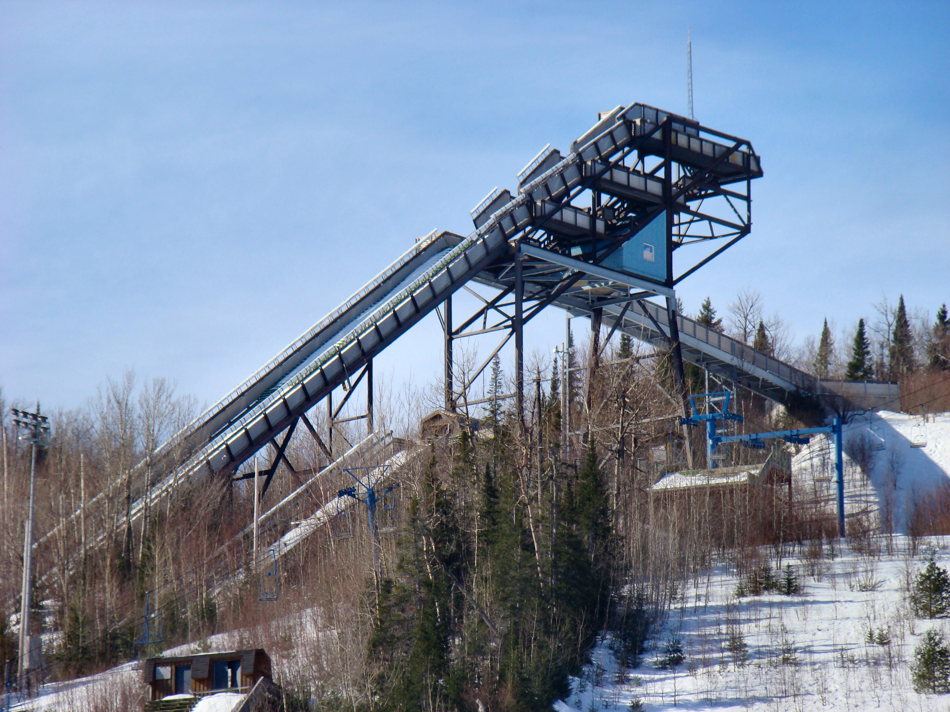 Ski jump structure at the Big Thunder Ski Jumping Centre in Thunder Bay, Ontario, Canada